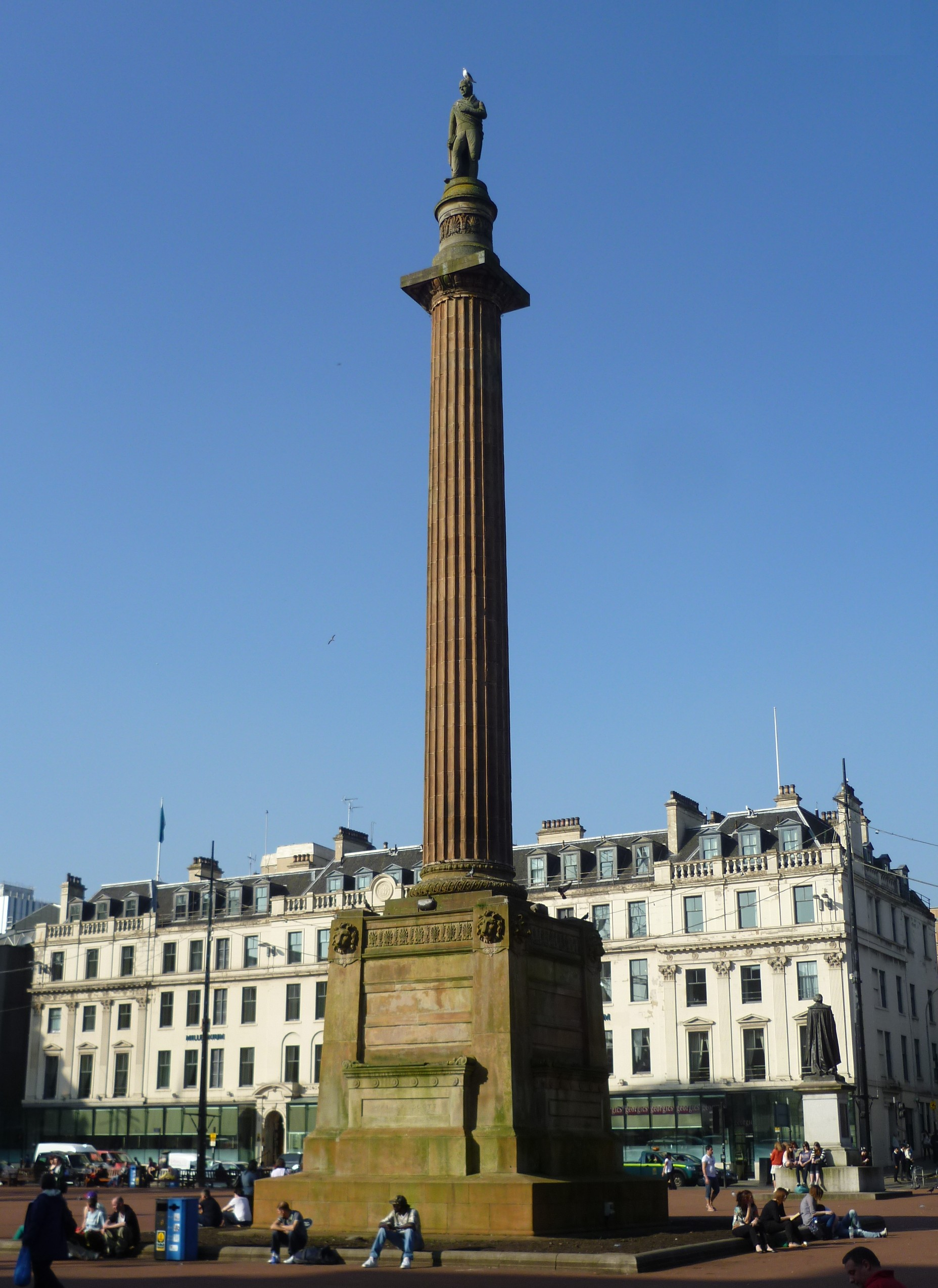 The Walter Scott memorial column in George Square, designed by David Rhind and erected in 1838.